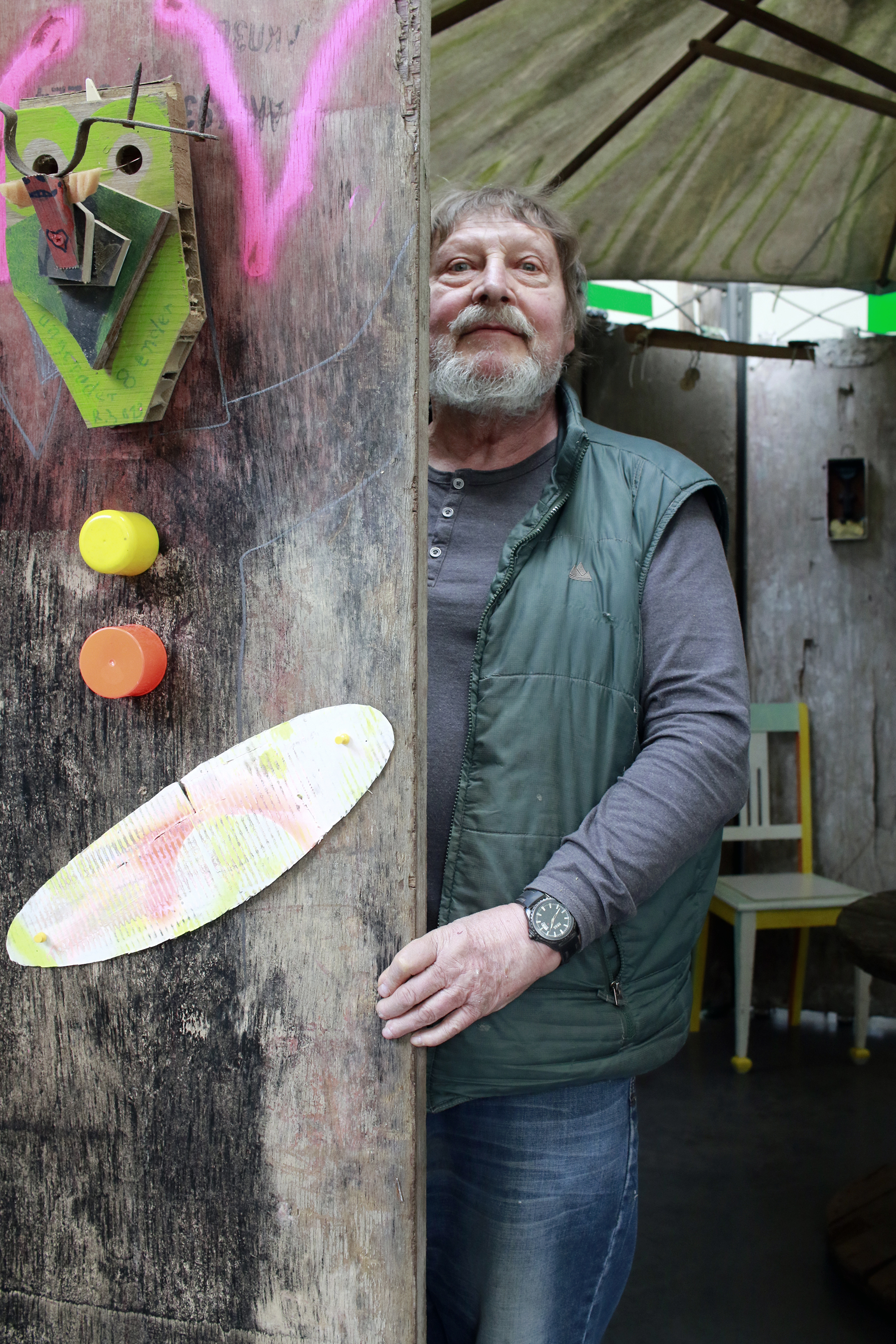 Reiner Zitta